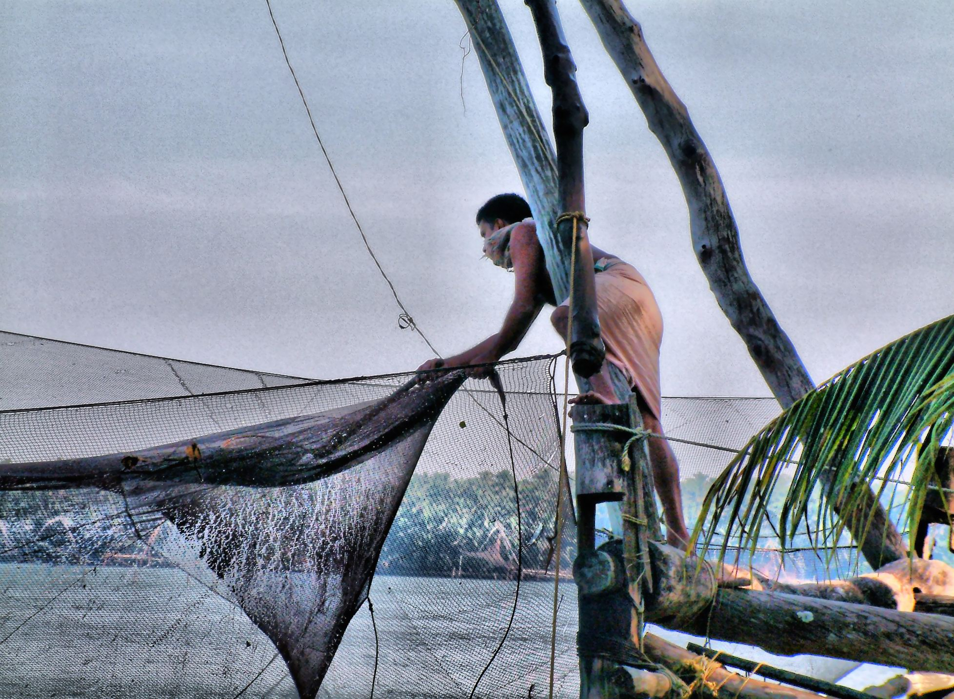 Chinese Fishing net